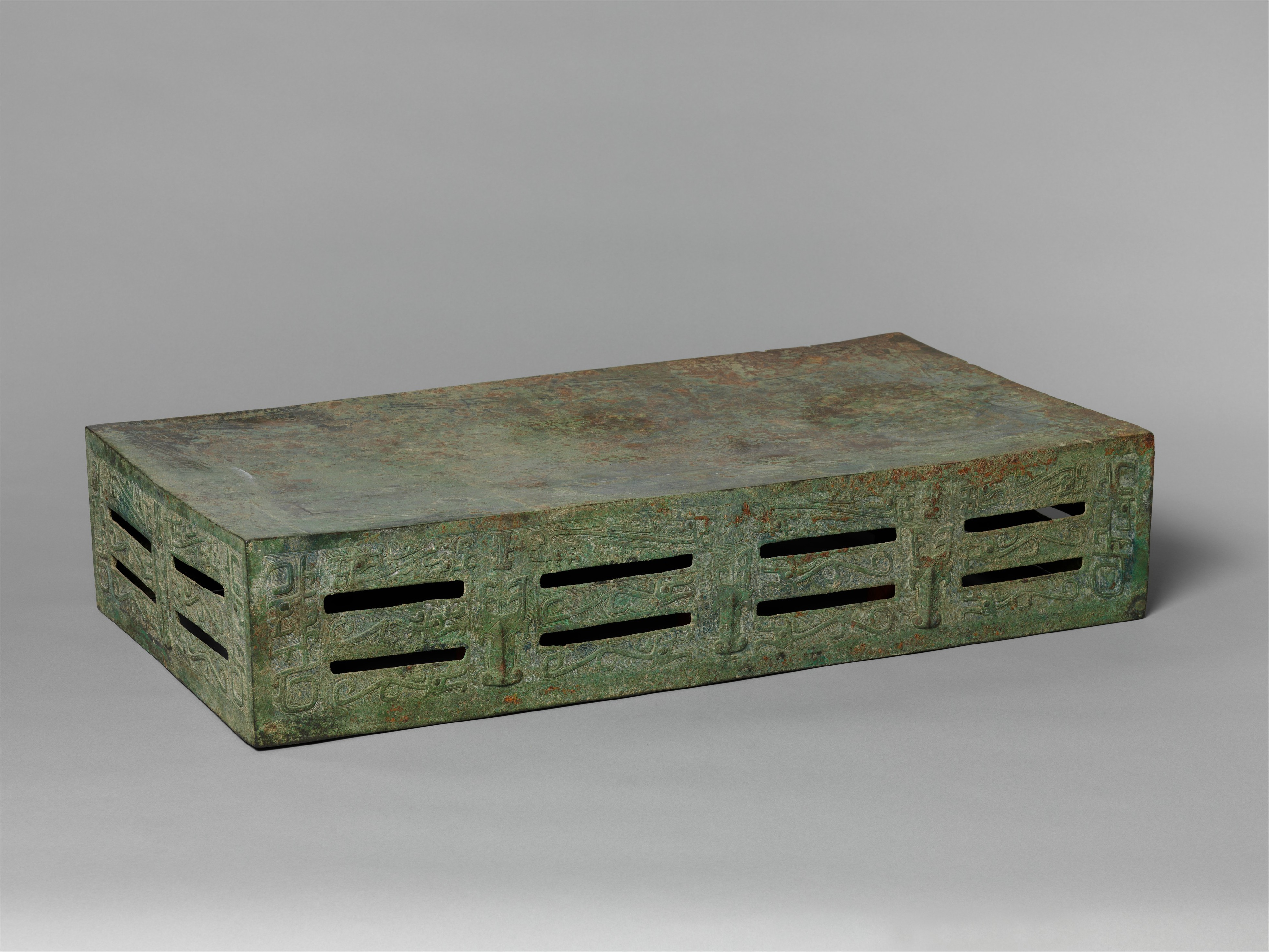 China; Altar table; Metalwork